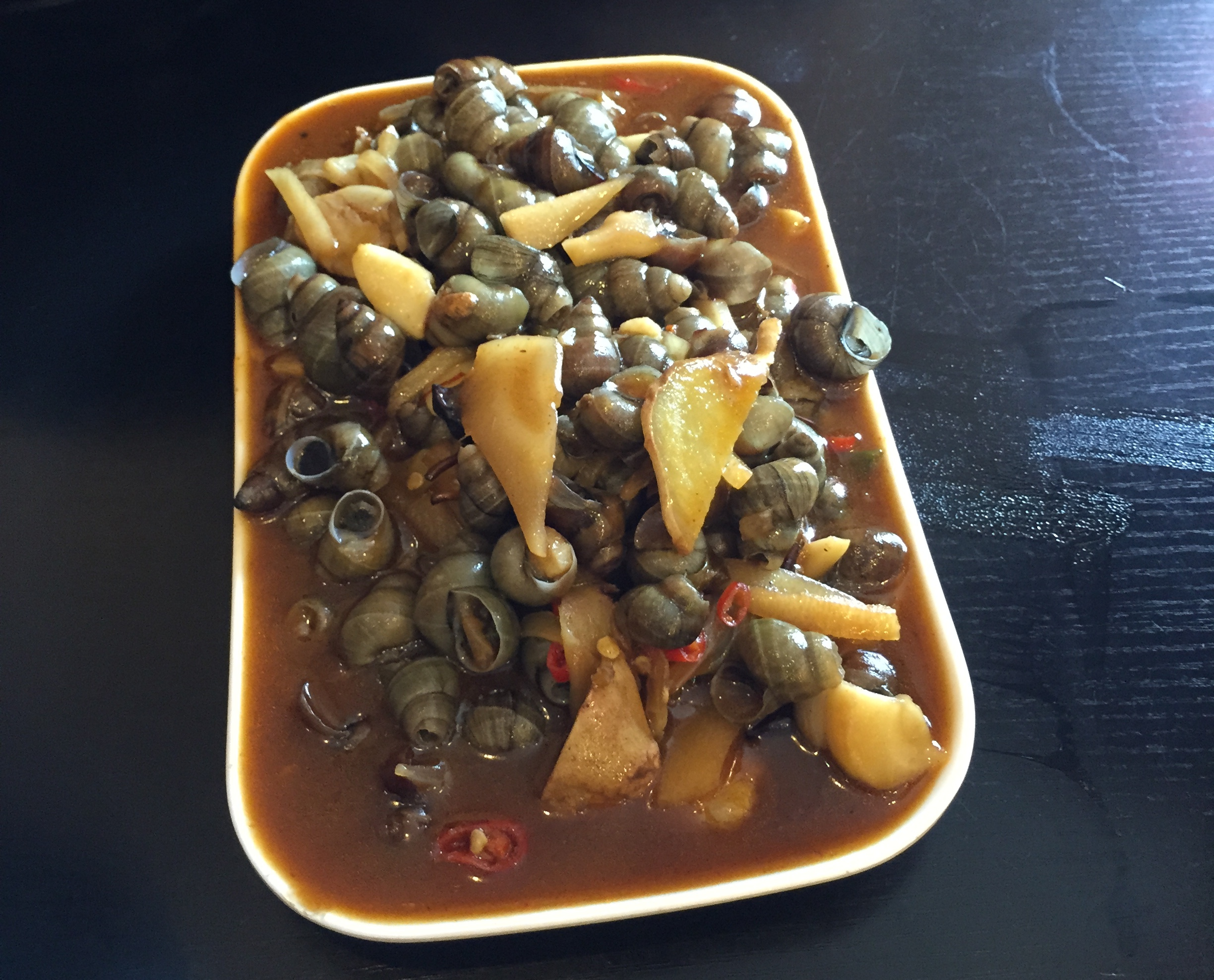 This is what "Luosifen" named from...